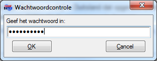 RapidBatch example